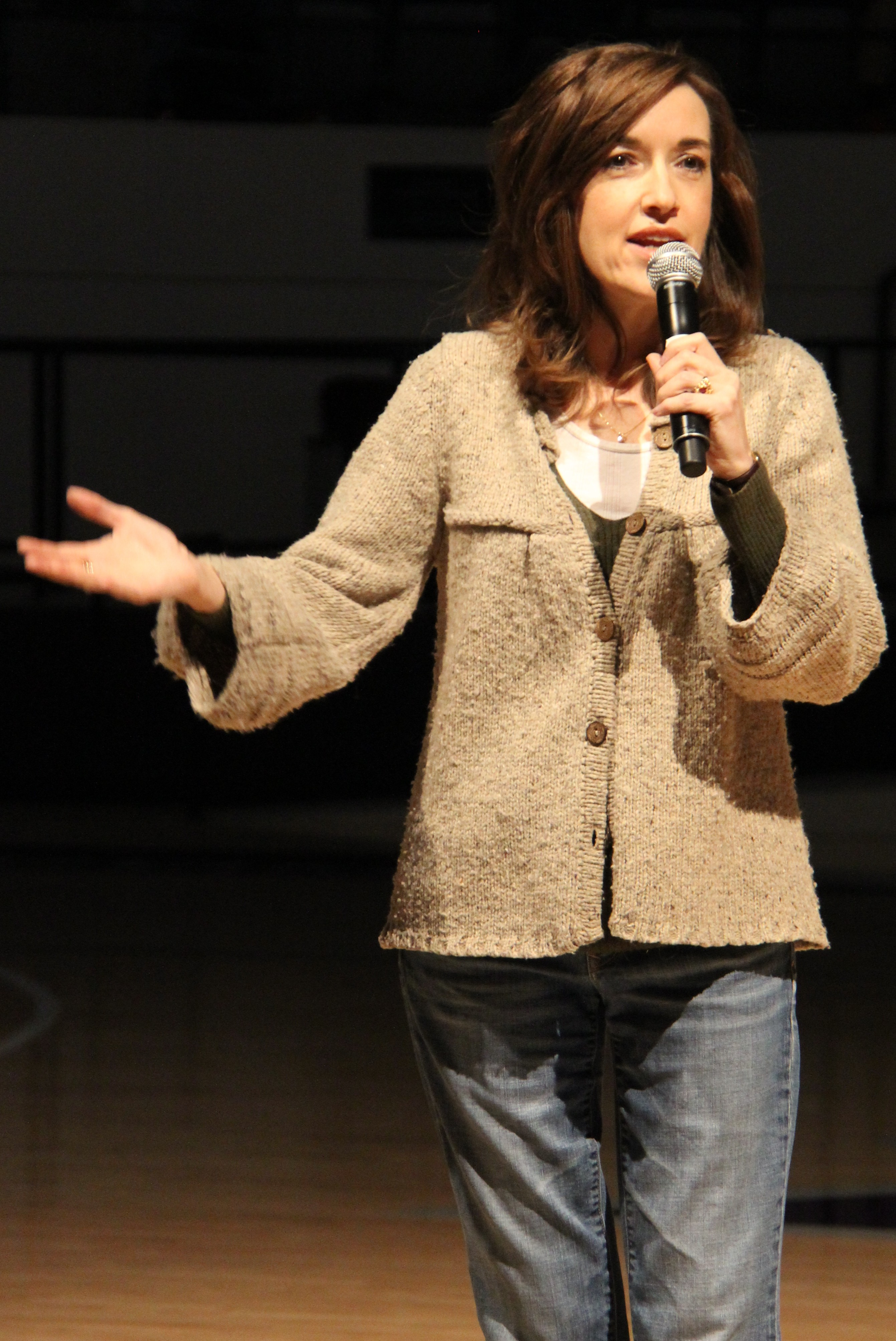 Sally Gary speaking in chapel at ACU in 2014